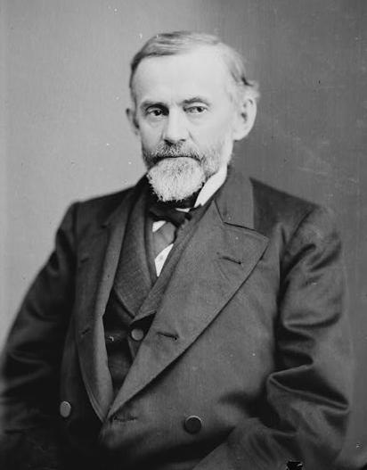 Bragg, Gen. Edward S. (not in uniform)